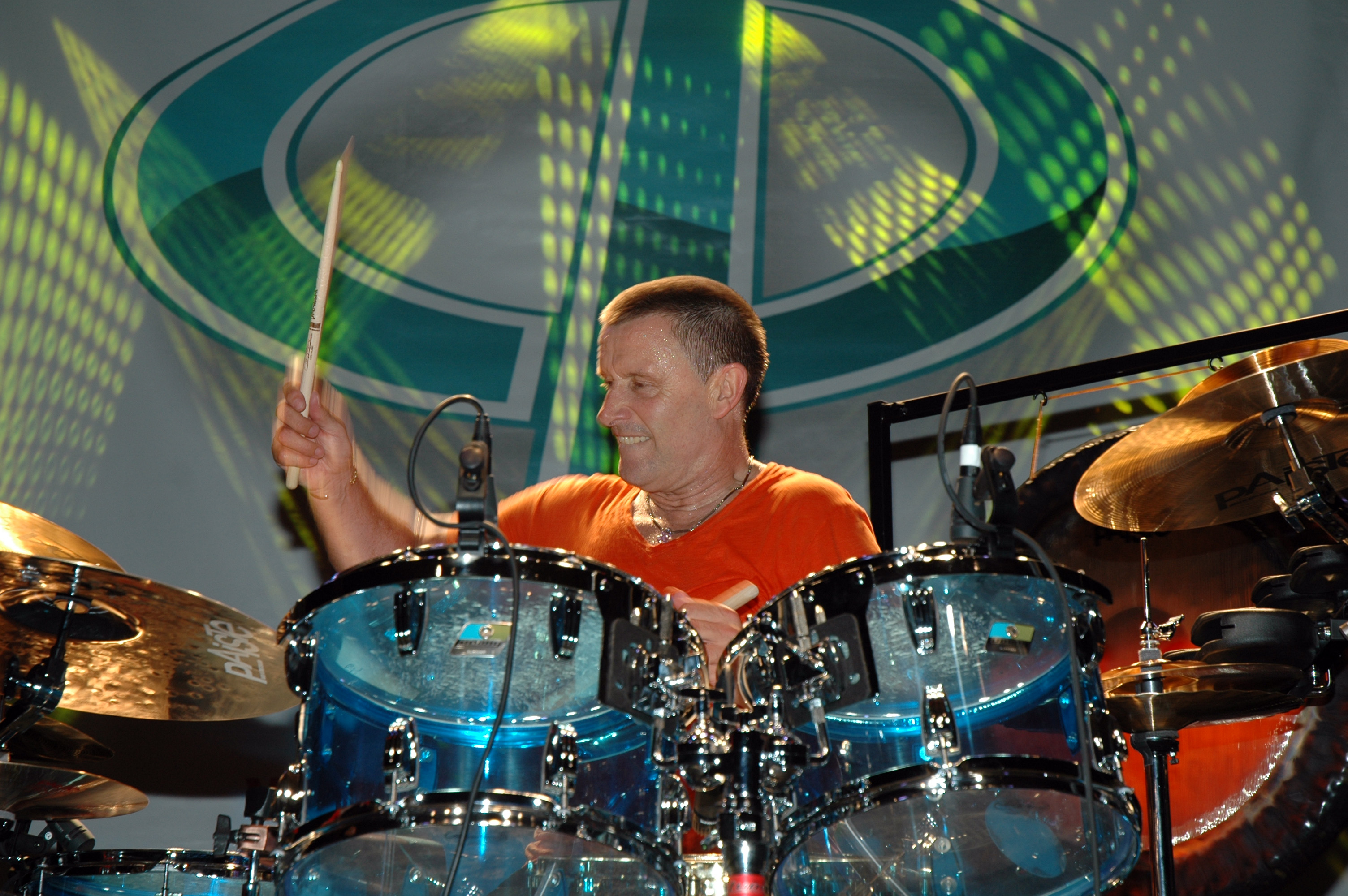 Carl Palmer (born Carl Frederick Kendall Palmer, on March 20, 1950, in Handsworth, Birmingham) is an English drummer and percussionist.Carl Palmer